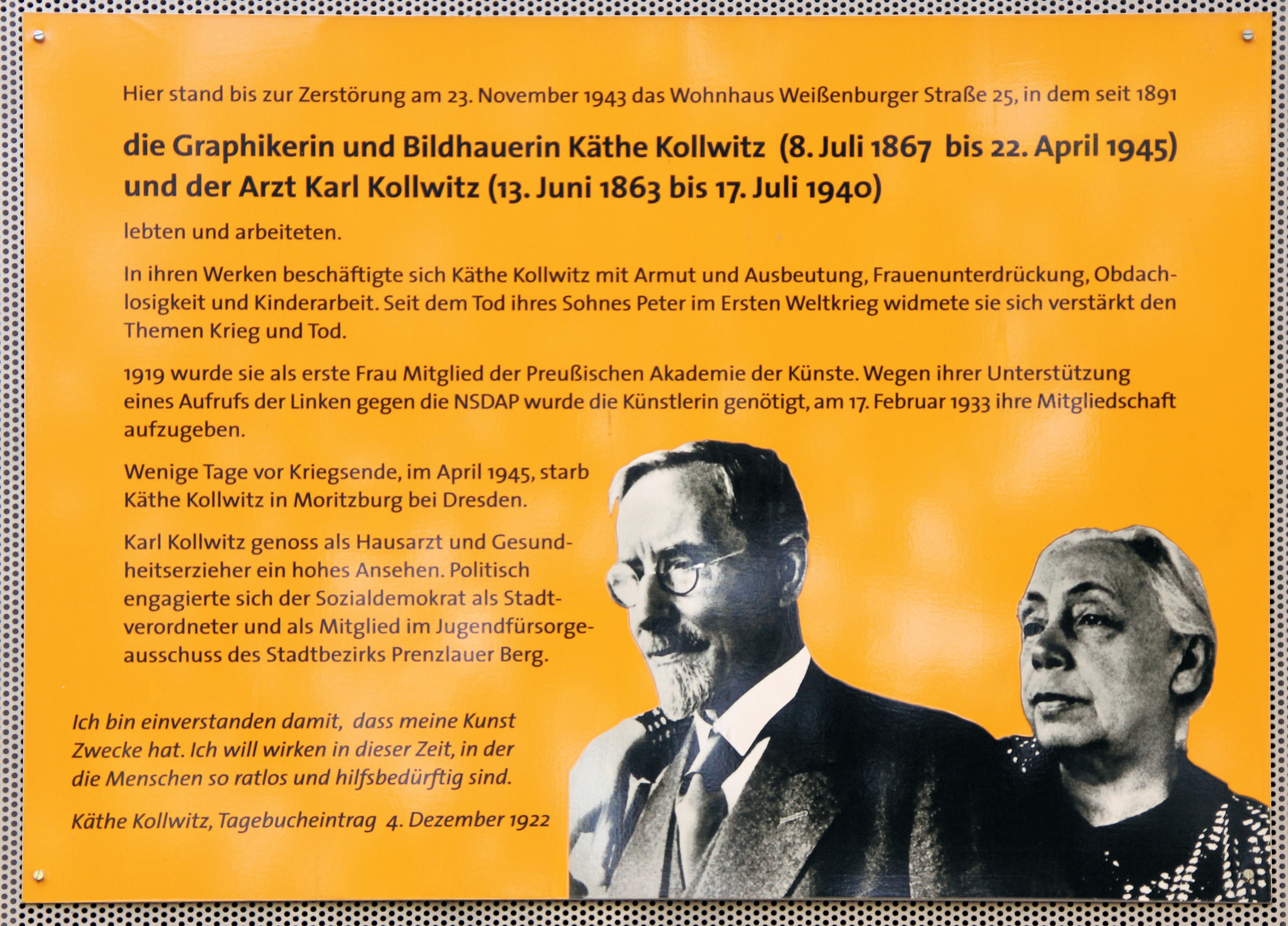 Memorial plaque, Karl Kollwitz and Käthe Kollwitz, Kollwitzstraße 58, Berlin-Prenzlauer Berg, Germany Koordinate:52°32′8″N 13°25′3″E / 52.53556°N 13.4175°E